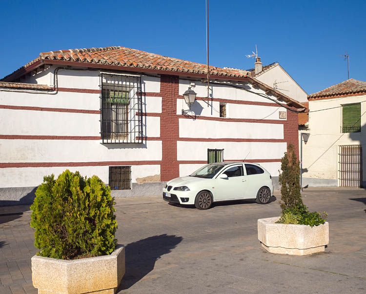 Arquitectura popular.